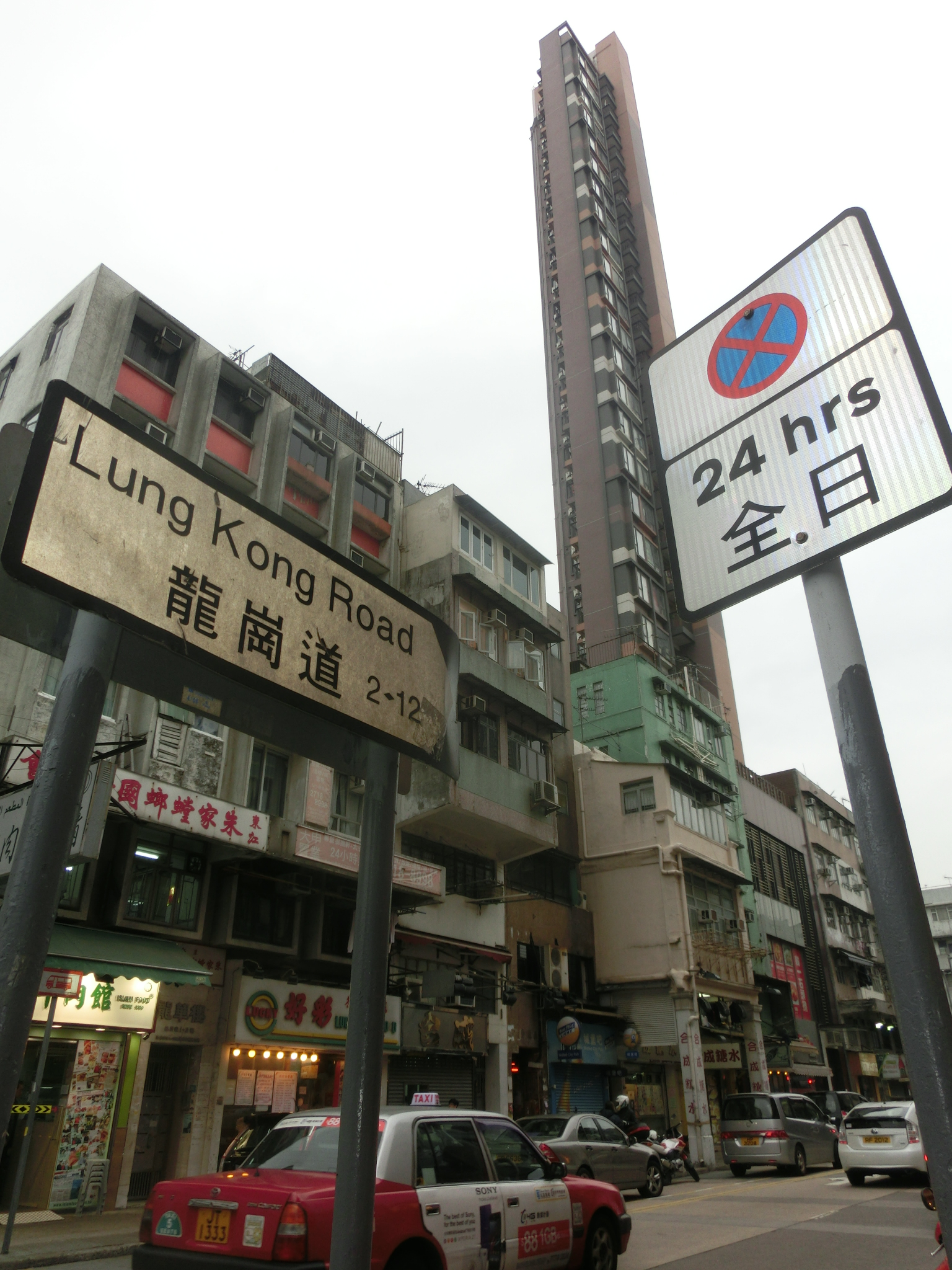 九龍城 Kowloon City 龍崗道, Lung Kong Road, Hong Kong